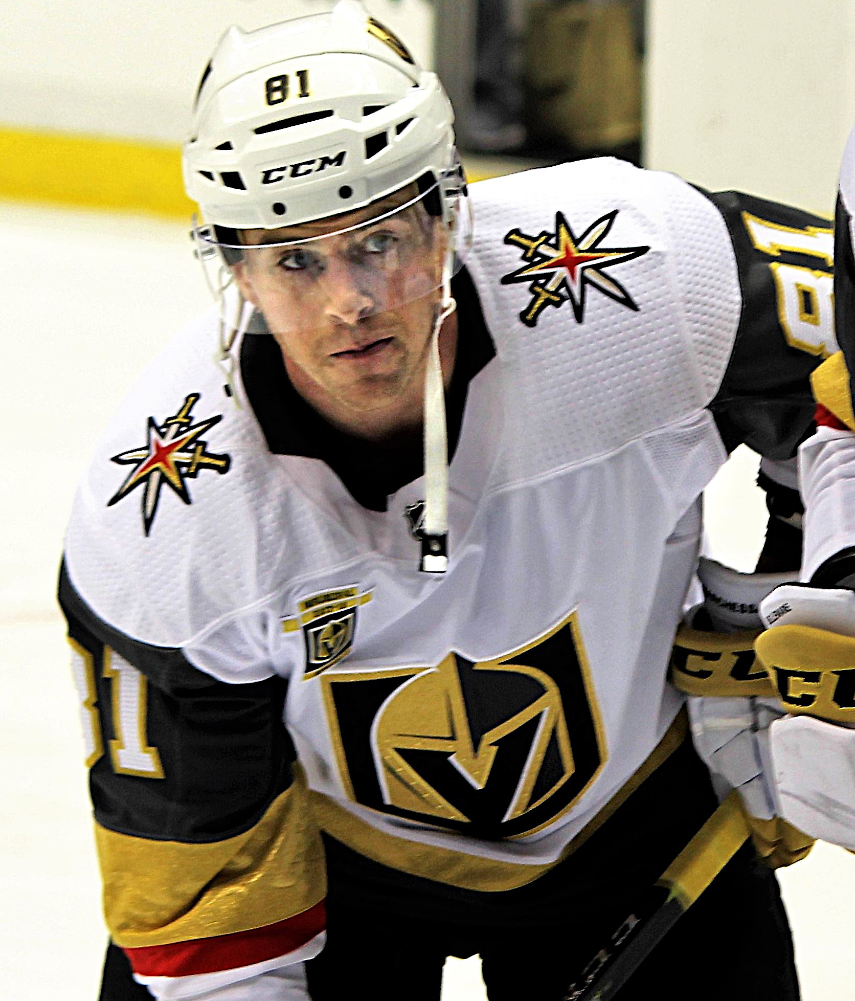 Vegas Golden Knights forward Jonathan Marchessault during a game against the Pittsburgh Penguins, February 6, 2018, at PPG Paints Arena in Pittsburgh, PA.